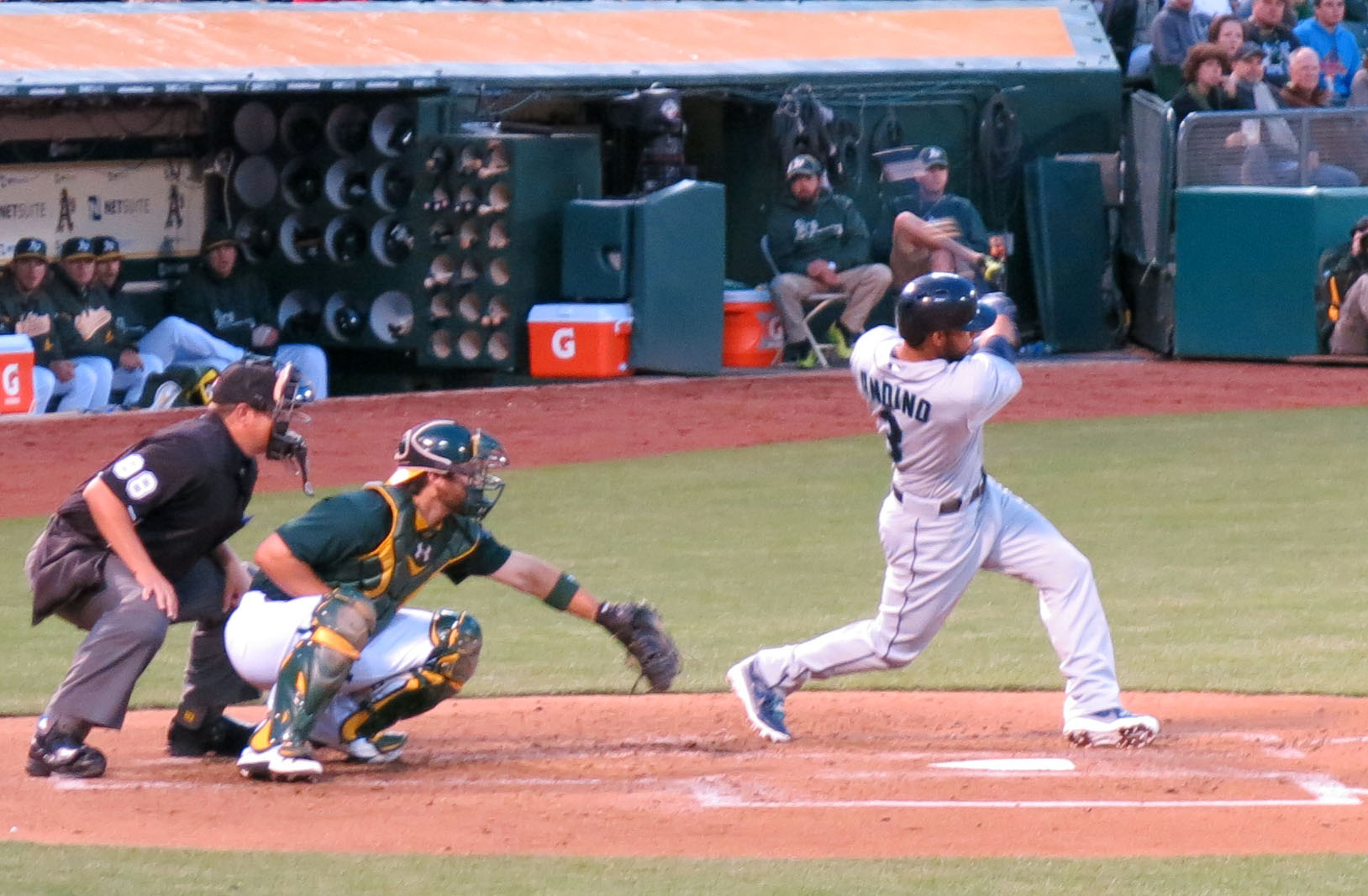 Seattle Mariners infielder Robert Andino swings at a pitch from Tommy Milone of the Oakland Athletics.